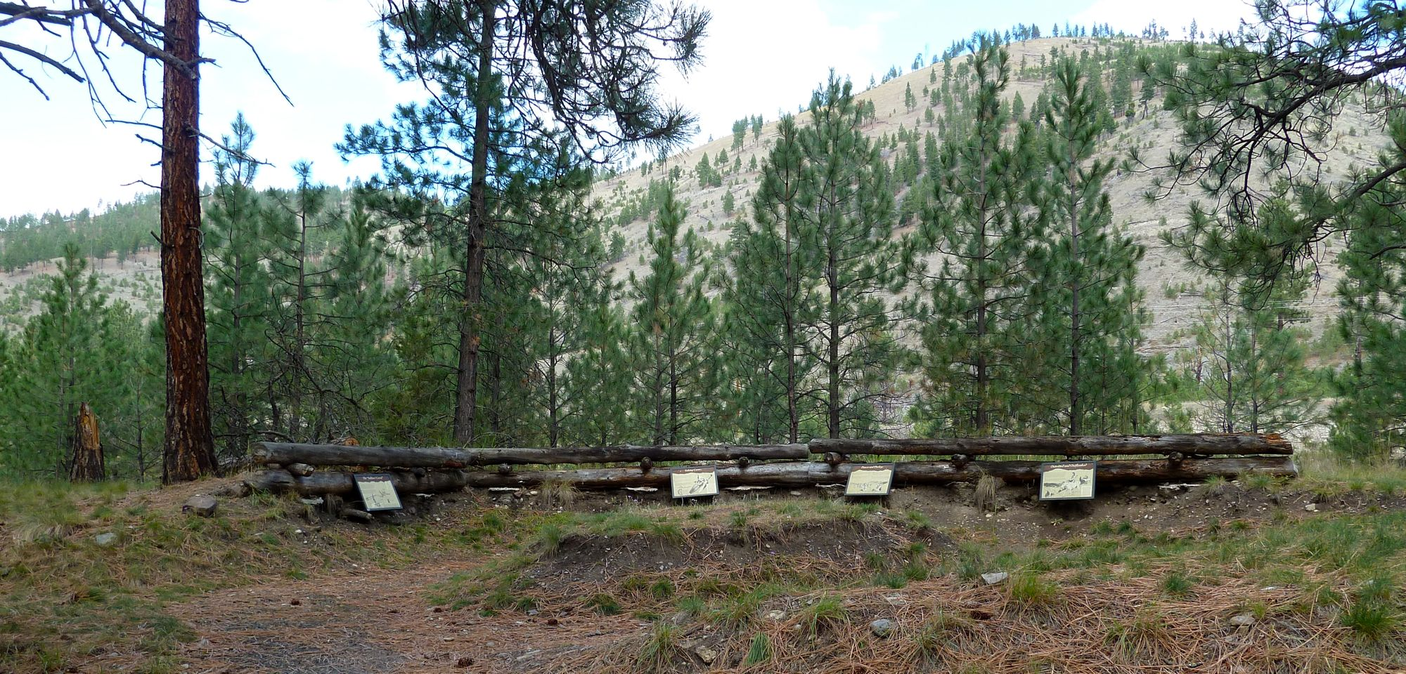 A photo of Fort Fizzle in the Bitterroot Valley, Montana. Erected to intercept the Nez Perce Indians in their retreat in July 1877.